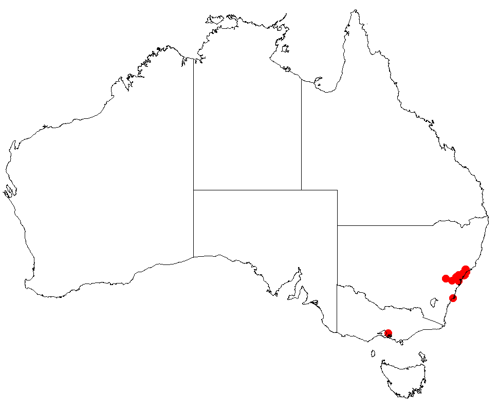 Hakea bakeriana Occurrence data downloaded from Australasian Virtual Herbarium on 22 November 2018 using